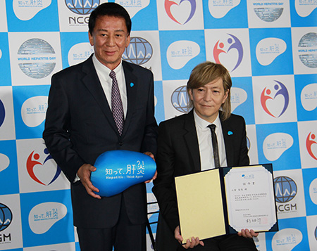 Katsuhiro Yamada, Special Advisor for Hepatitis Measures of the Ministry of Health, Labour and Welfare, and Tetsuya Komuro, Goodwill Ambassador for Hepatitis Measures of the Ministry of Health, Labour and Welfare, posed for photo at the Central Government Building No.5 in Chiyoda Ward, Tōkyō Metropolis on April 28, 2016.